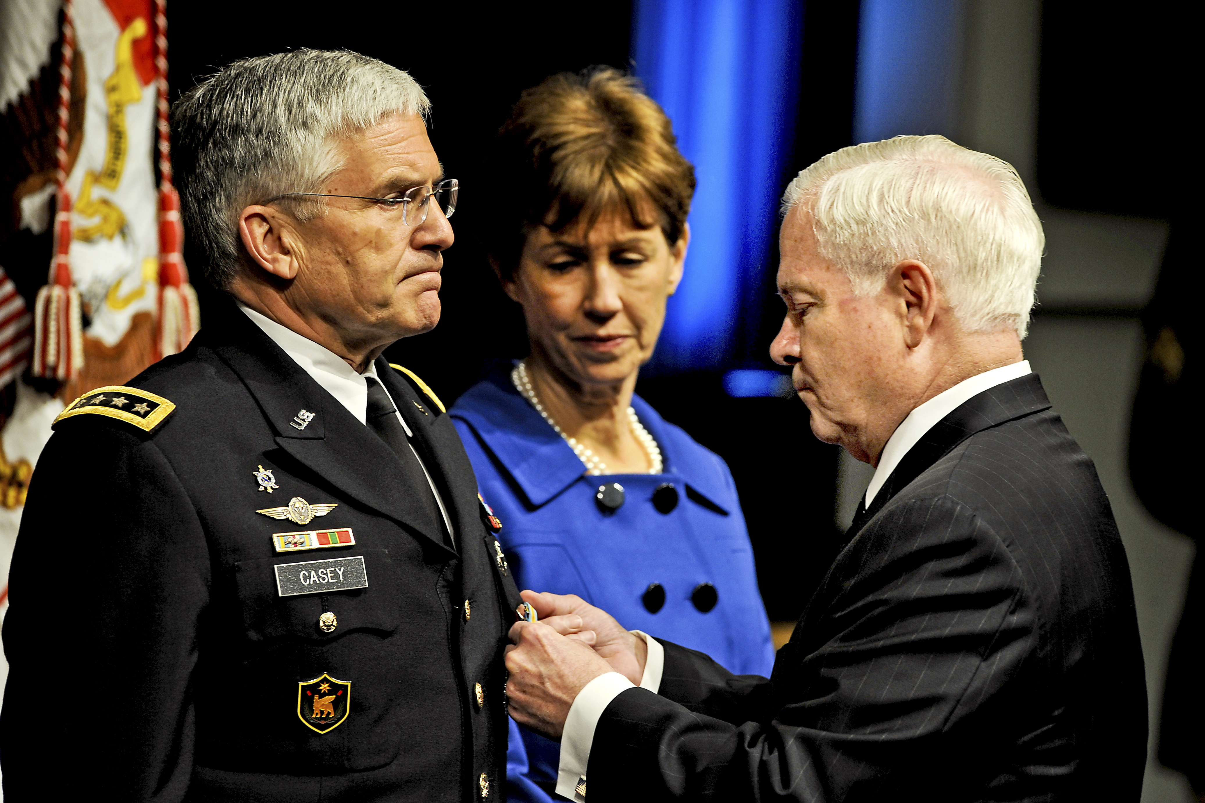 Secretary of Defense Robert M. Gates presents the Defense Distinguished Service Medal to Army Chief of Staff Gen. George W. Casey a during ceremony at the Pentagon, April 11, 2011, marking his retirement from active duty after more than 40 years of dedicated service. His wife Sheila Casey, who sharred every step of his distinguished career, watches the presentation. Moments later, Gates presented her the Defense Distinguished Civilian Service Medal in recognition of her tireless work in support of Army families.